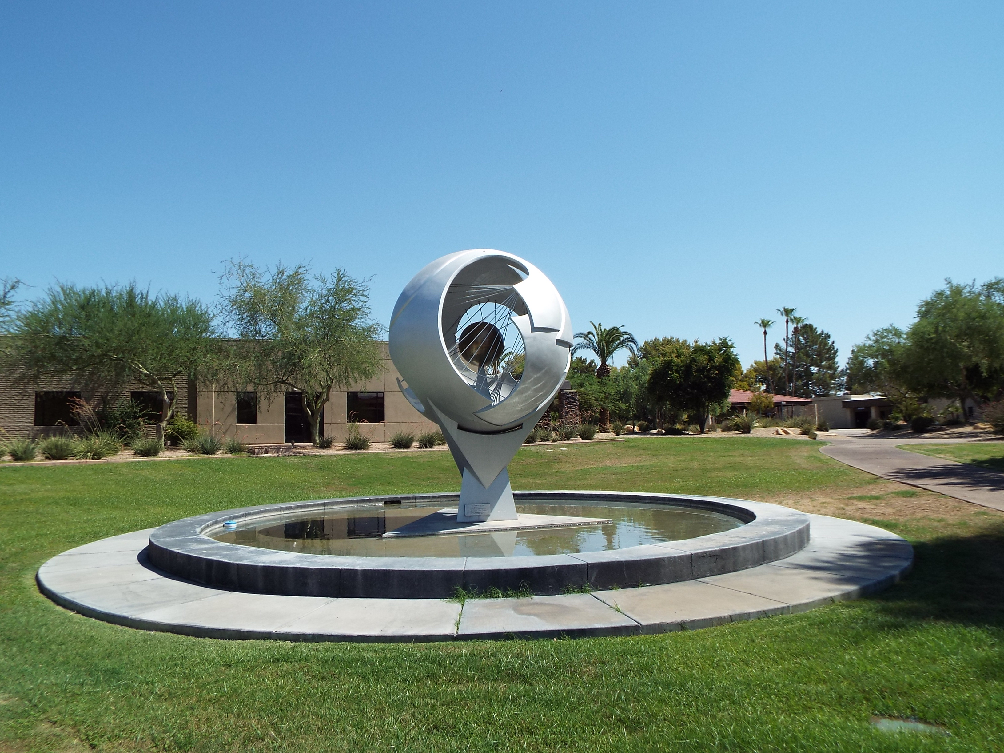 Glendale-Thunderbird School of Global Management.